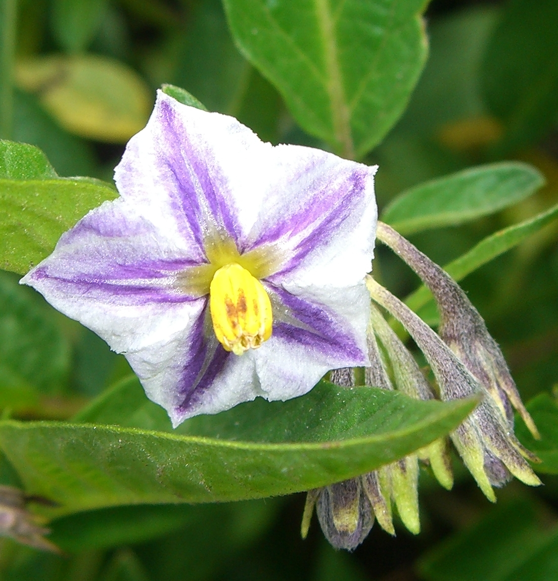 Please report references to .